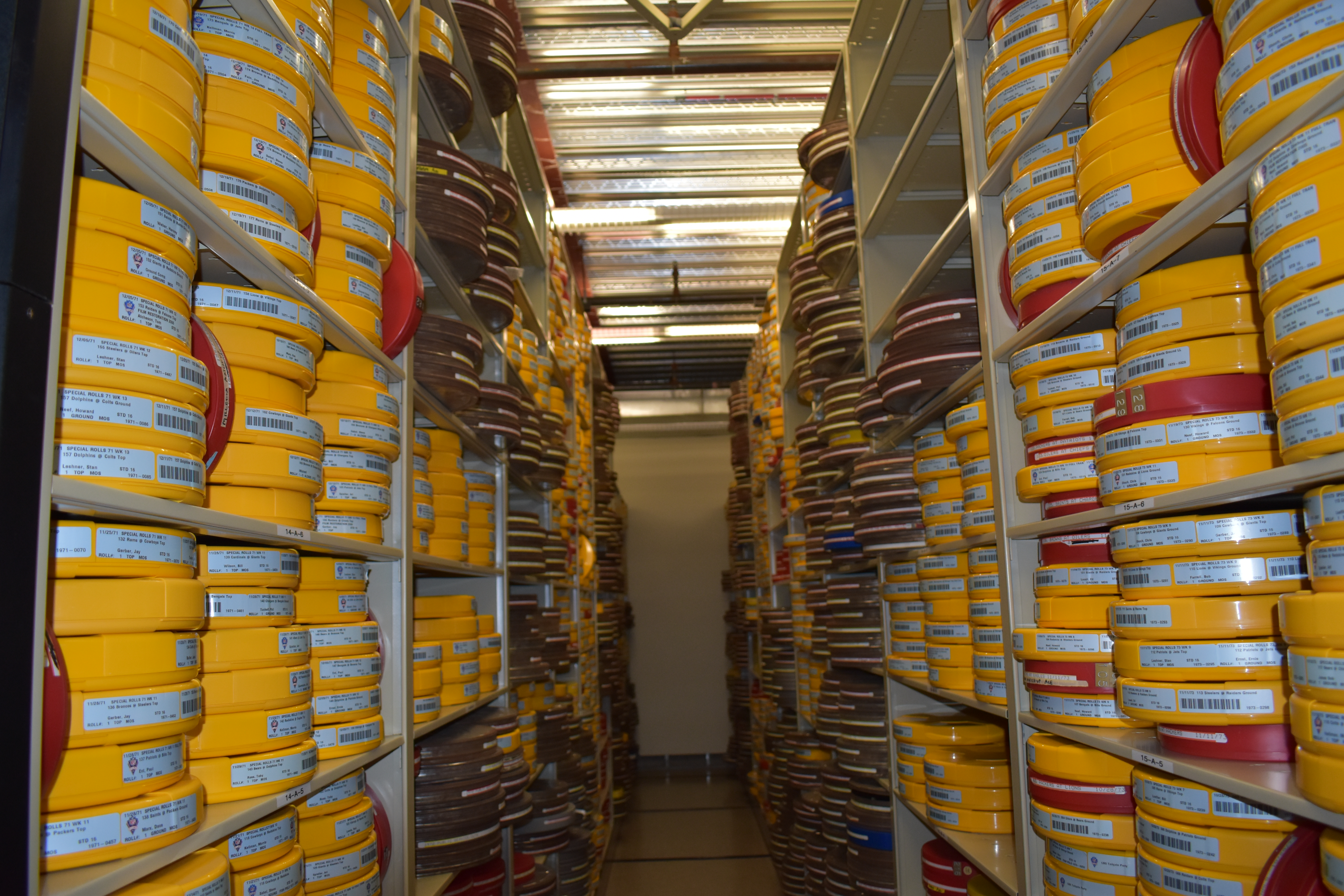 A section of the NFL Films film vault at the company's Mt. Laurel headquarters.